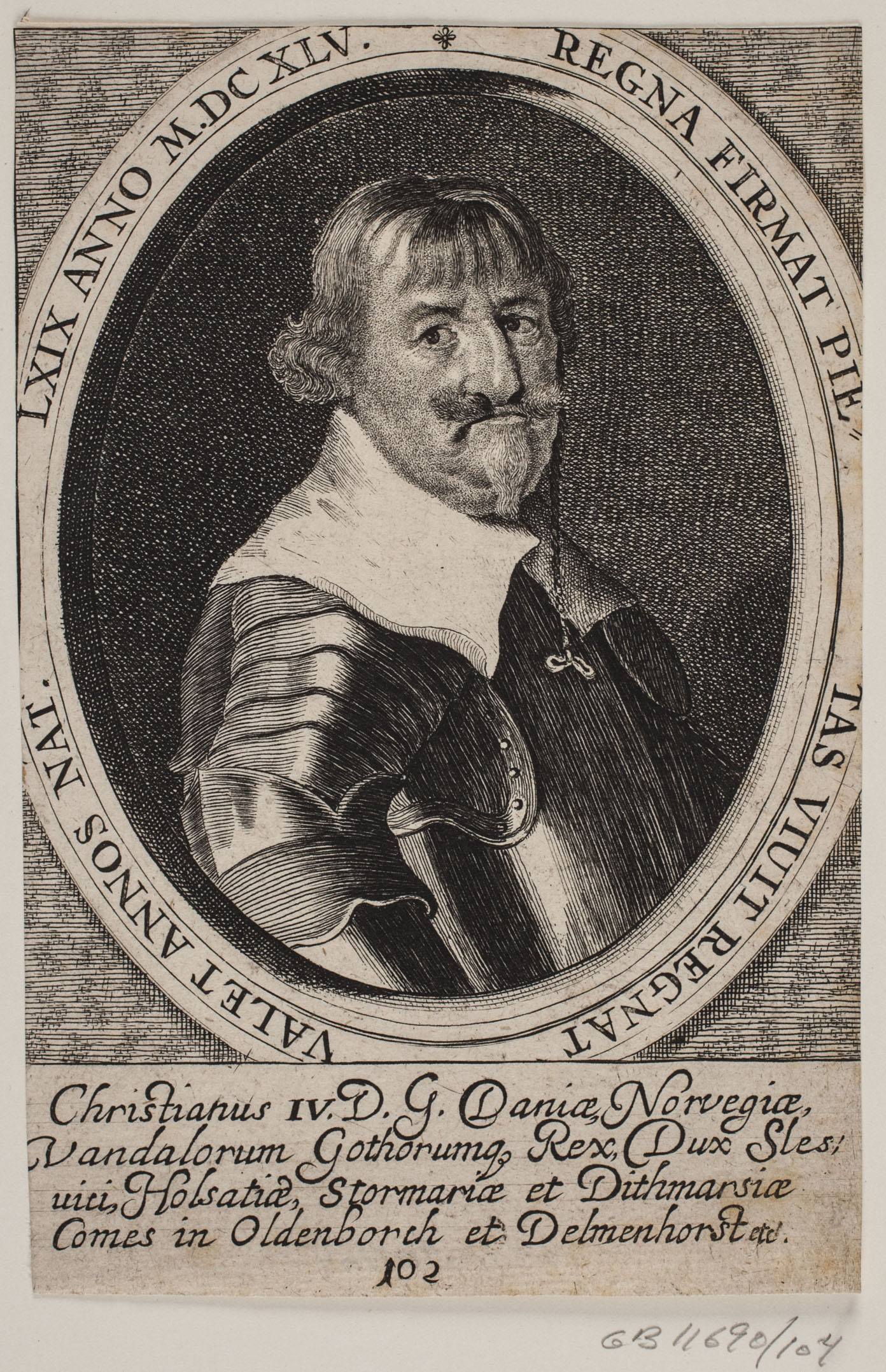 Albert Haelwegh (1601-1673); , Christian IV, (1646)